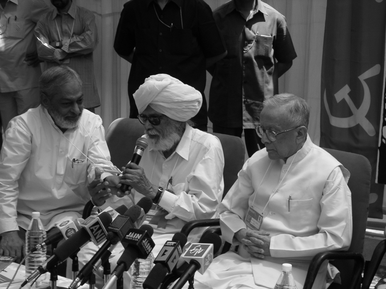 Press conference at the book release of "Memoirs - 25 Communist Freedom Fighters" by Sitaram Yechuri at the 18th congress of Communist Party of India (Marxist), Delhi, 2005. From the left, PMS Grewal (CPI(M) leader in Delhi), Harkishan Singh Surjeet (general secretary) and Jyoti Basu (former Chief Minister of West Bengal). Photo: Soman